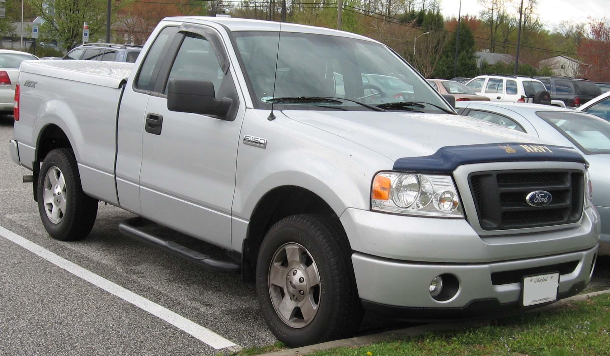 2004-2007 Ford F-150 photographed in USA.